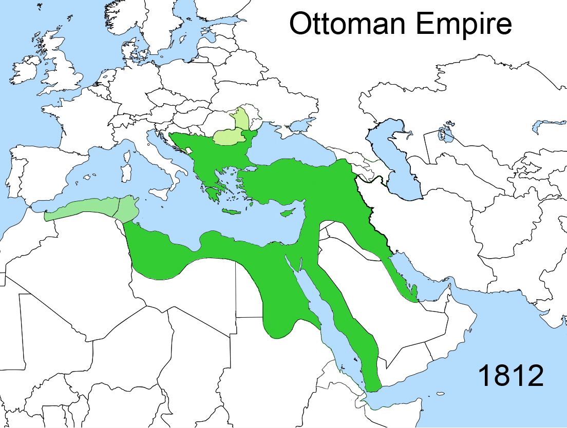 Territorial changes of the Ottoman Empire